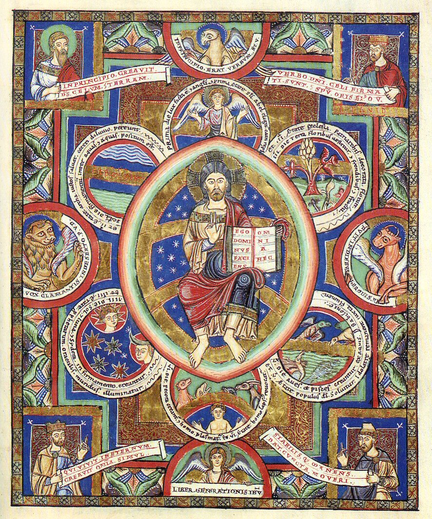 The Gospels of Henry the Lion, Medieval Codex (about 1188 AD)